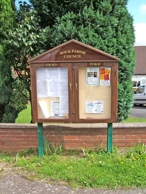 Rock Parish Council notice board, Heightington Road Next to the red telephone kiosk in Heightington Road can be found this Parish Council notice board. The village of Bliss Gate is within Rock Parish.